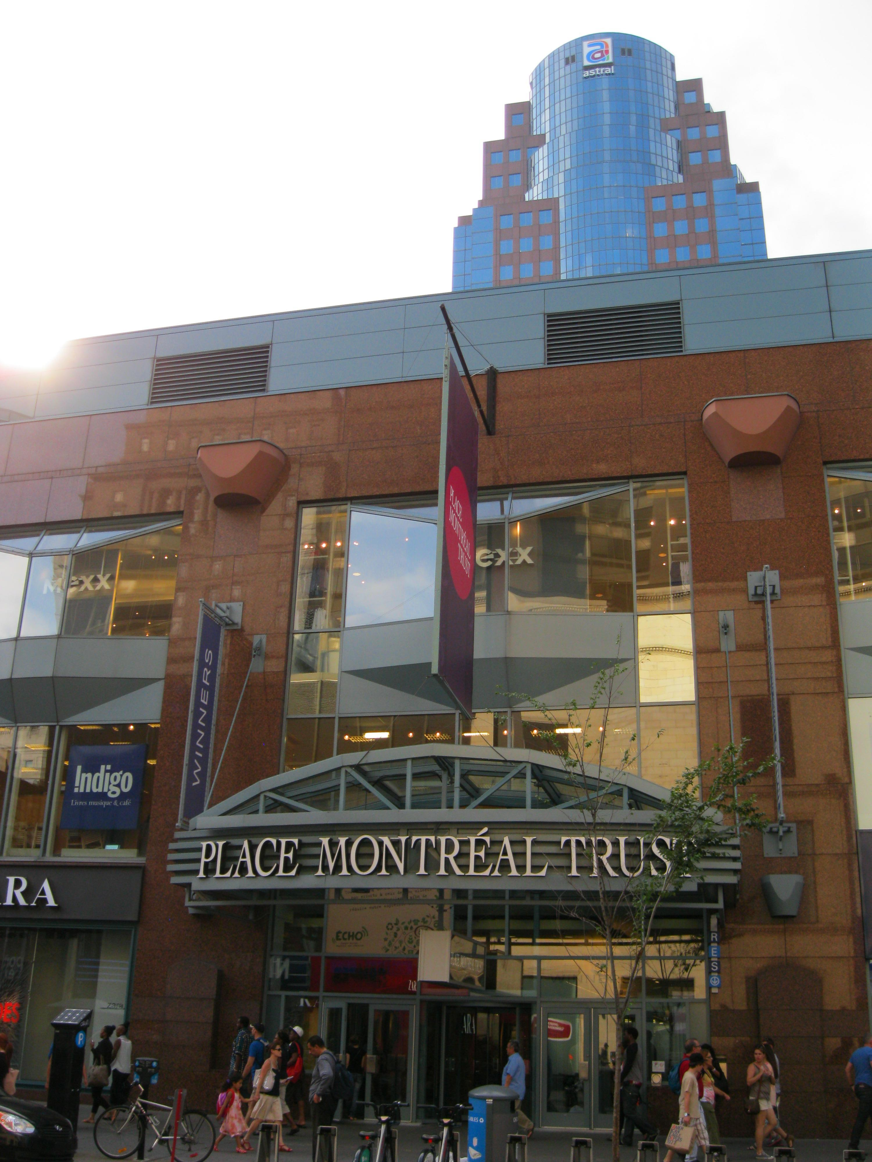 Place Montreal Trust in downtown Montreal